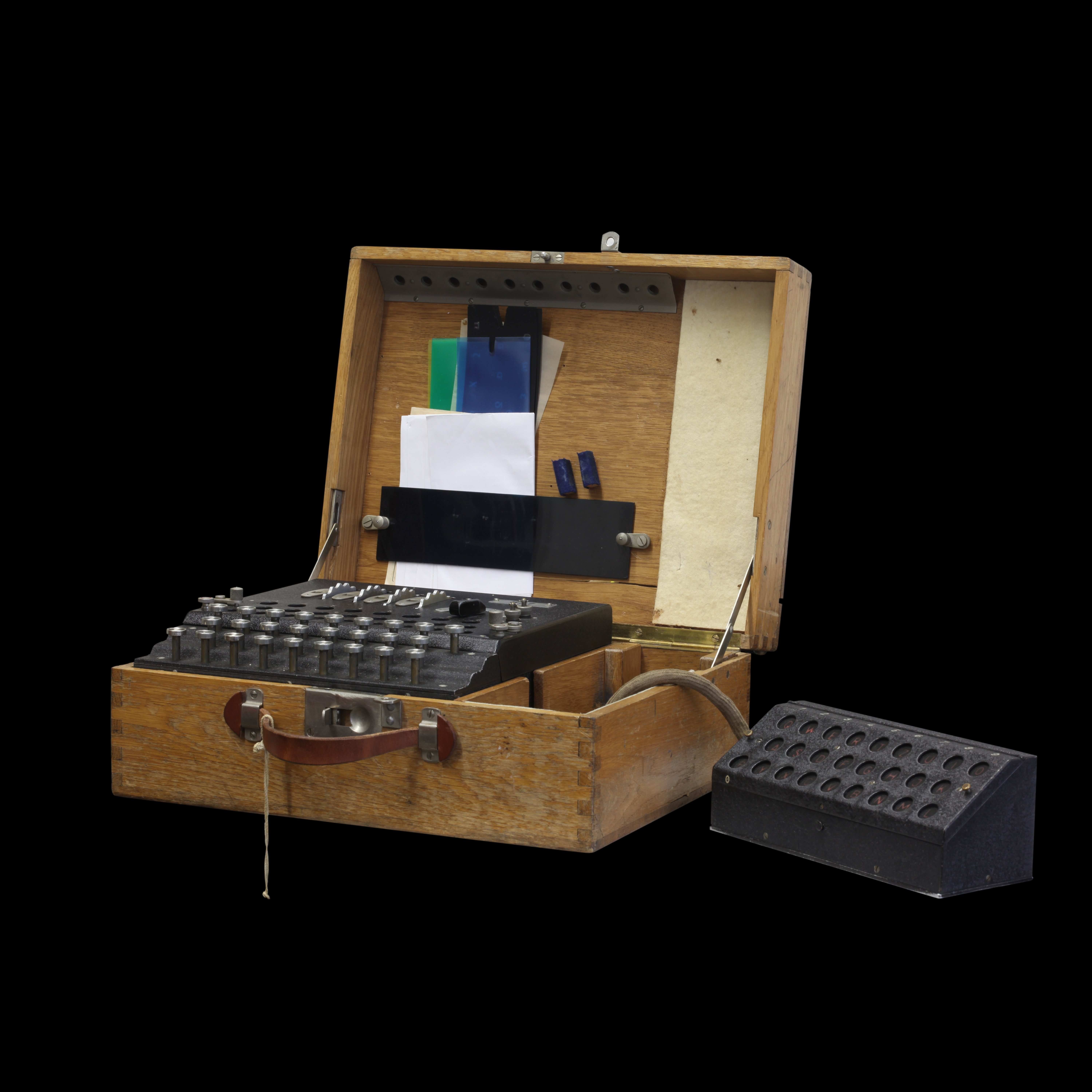 Enigma-K machine of the Swiss Army. Cryptography collection of the Swiss Army headquarters The making of this document was supported by Wikimedia CH.(Submit your project!) For all the files concerned, please see the category Supported by Wikimedia CH.